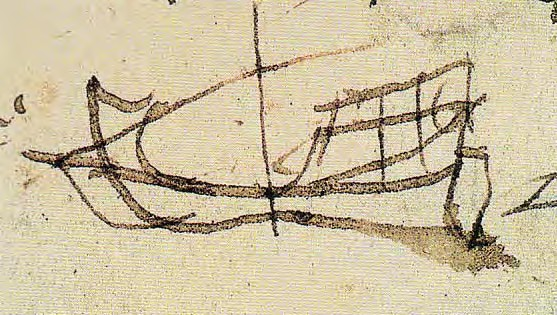 Sketch of a caravel by master of the ship João de Lião, dated to 1488